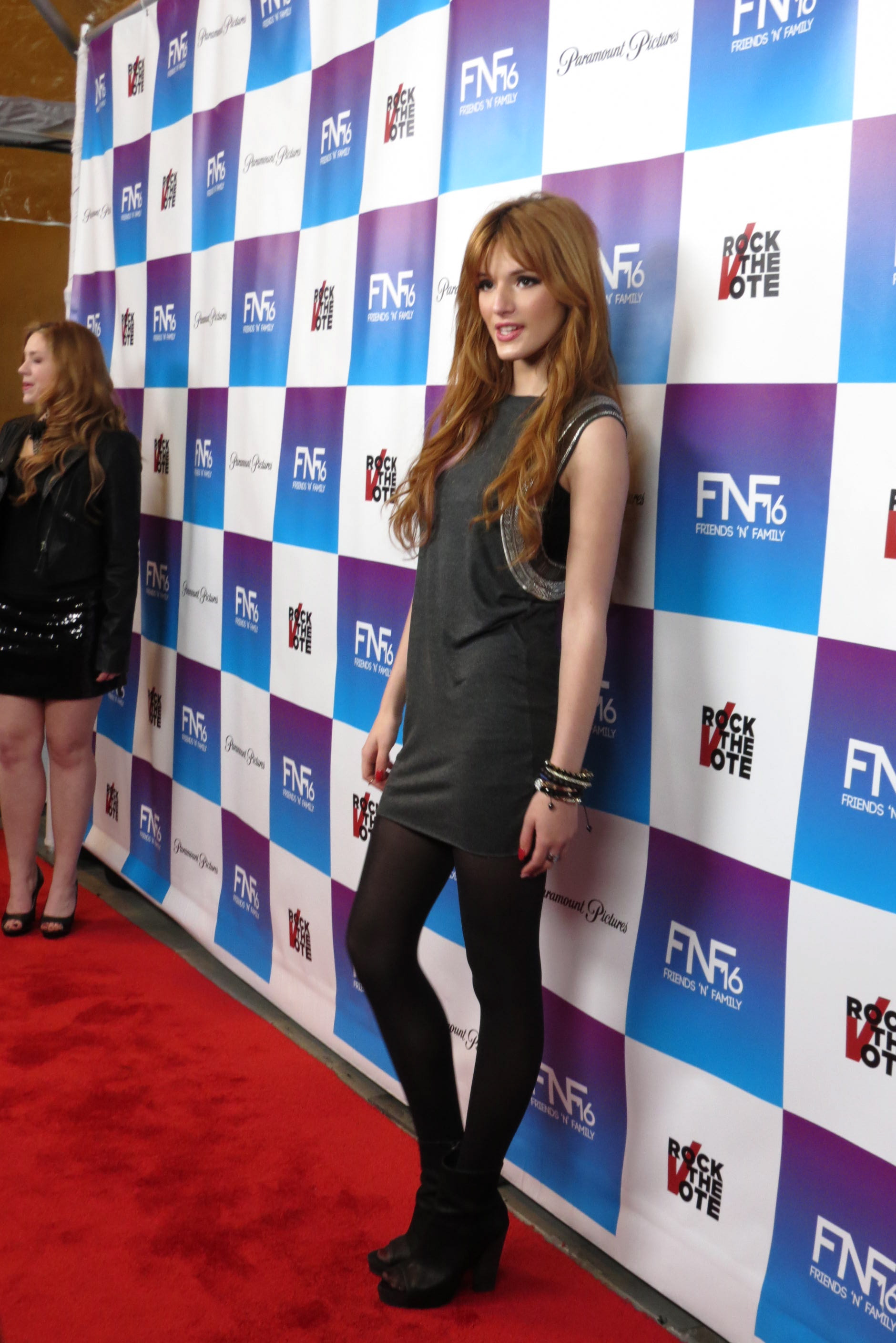 Bella Thorne